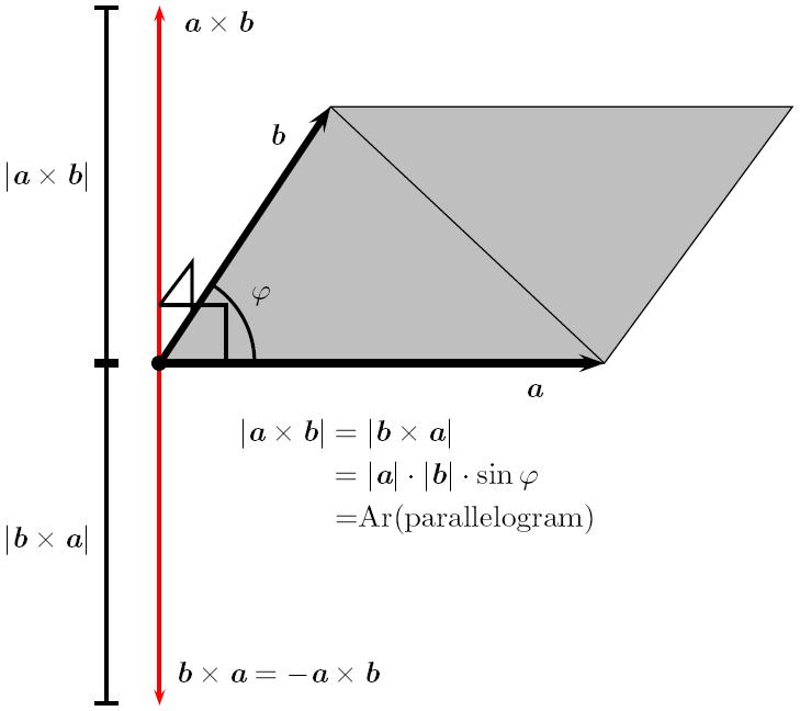 Geometric interpretation of cross-product of two vectors